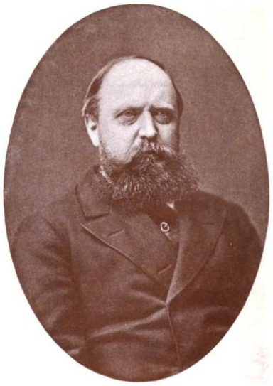 Paleontologist Othniel Charles Marsh